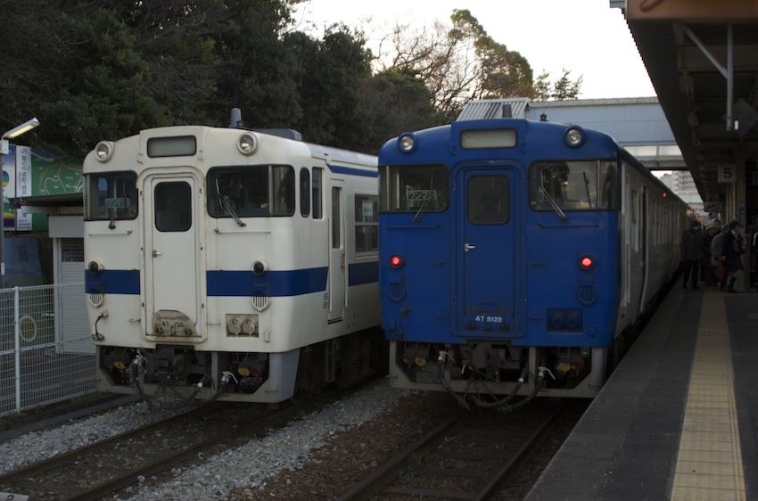 Kiha 47 DMUs in Kyushu and Aqua Liner colours, at Kashii Station